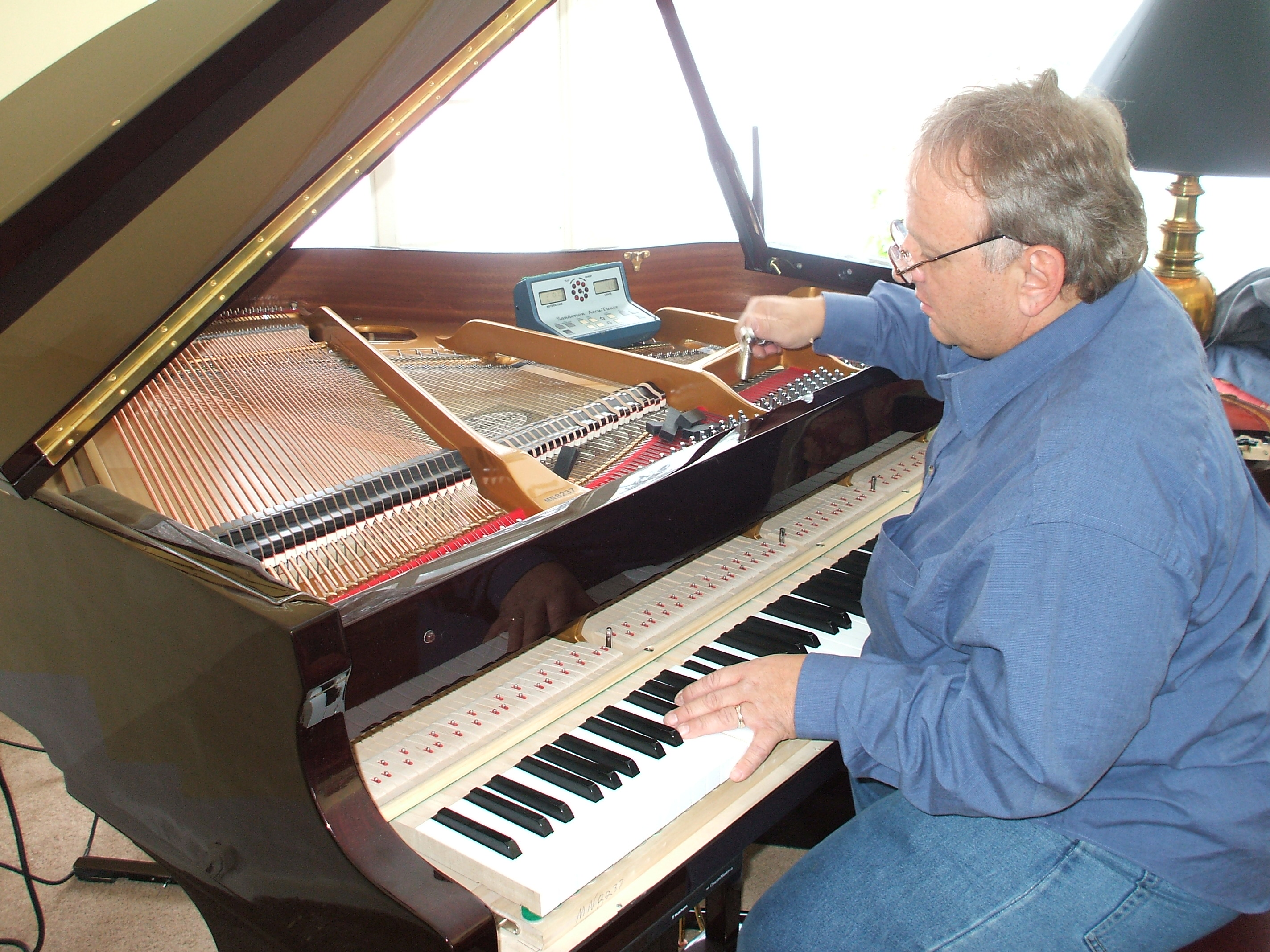 Piano tuner